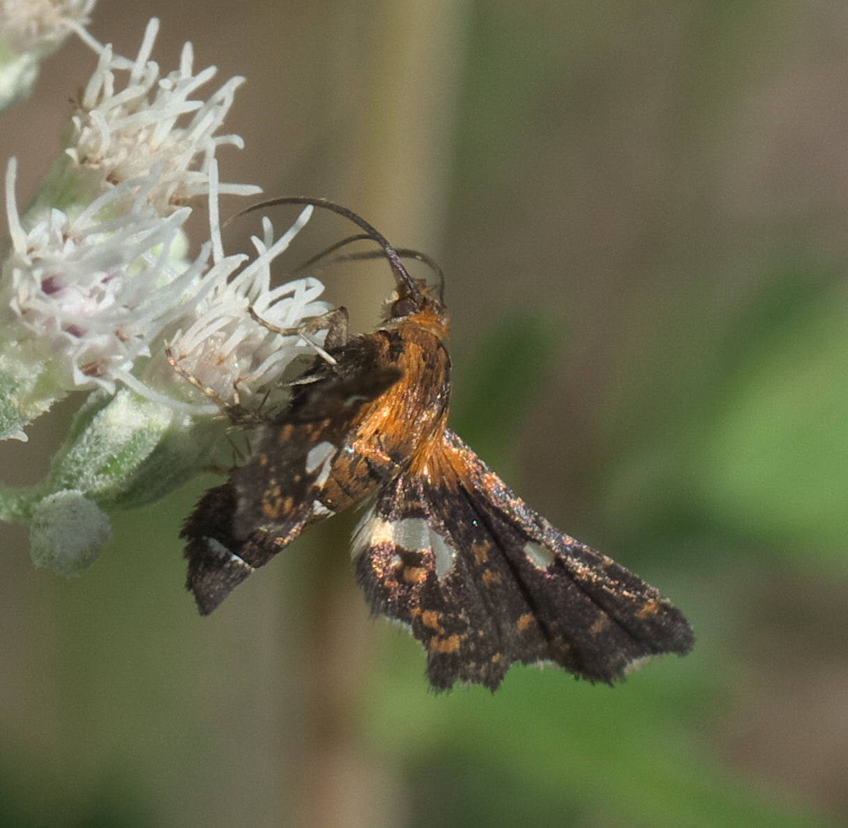 Thyris maculata, Spotted Thyris - Hodges #6076, ID Confidence: 88